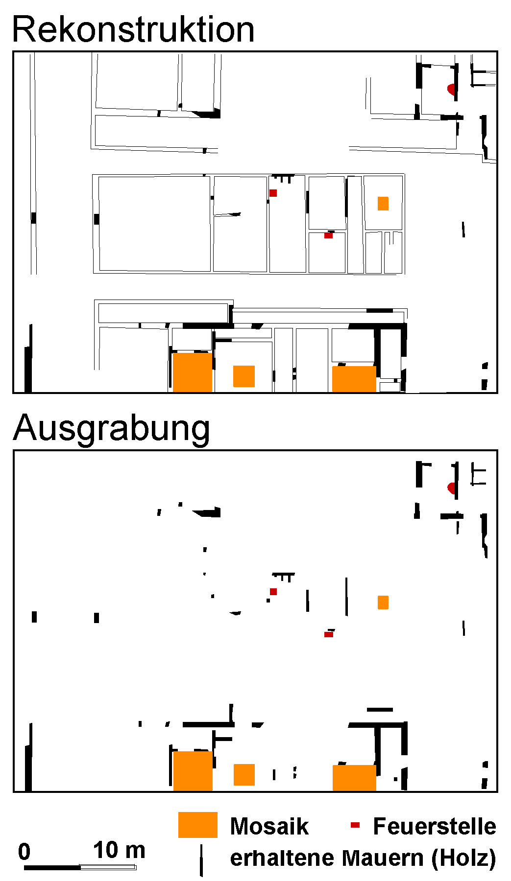 Roman houses excavated in London, First century